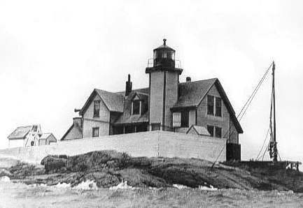 Dumpling Rocks Lighthouse, Buzzards Bay, Massachusetts, 1889 structure